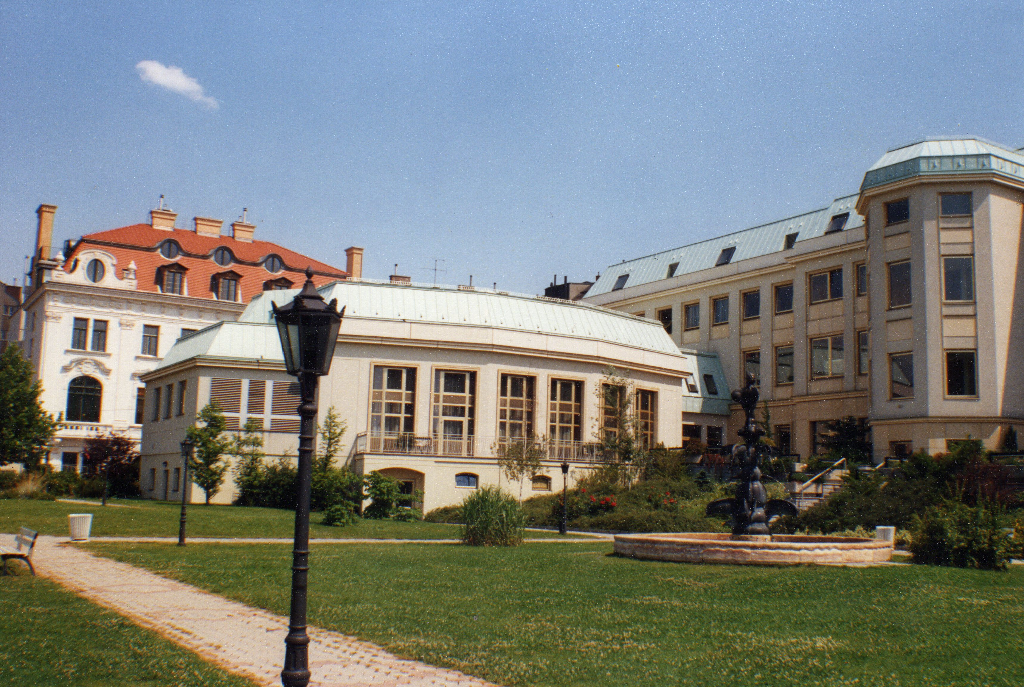 Thetre Akzent as seeen from Anton Benya Park